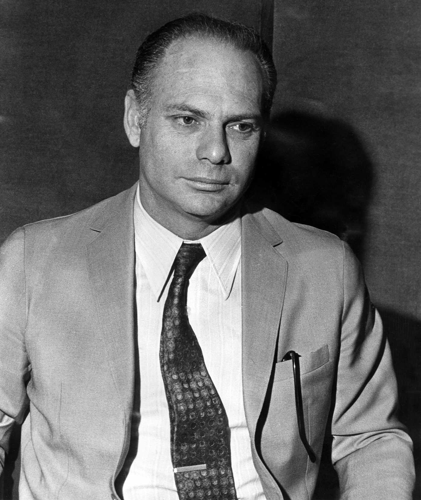 Silvio Magalhães Barros in the Brazilian Chamber of Deputies in 1971.jpg